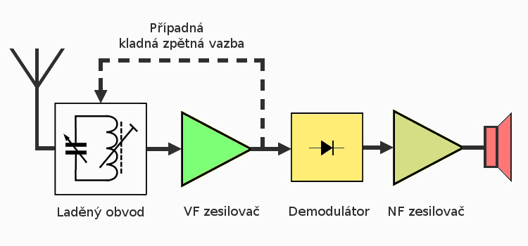 Block diagram